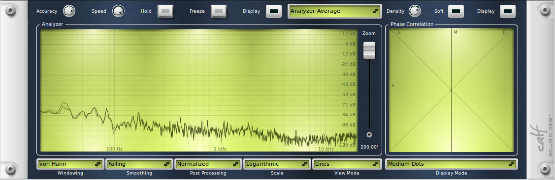 Calf analyzer at work